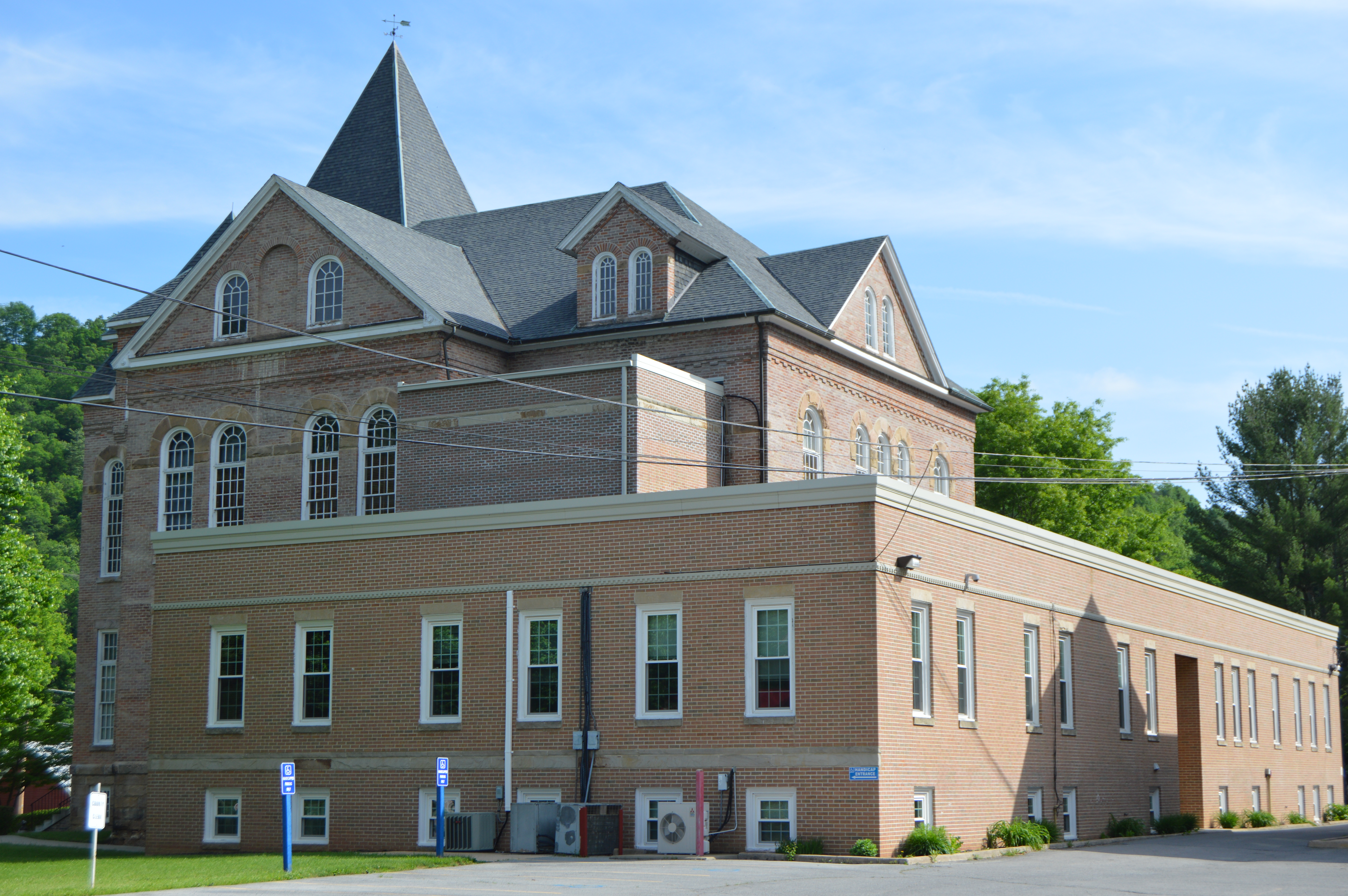 Rear and southwestern side (the sun preventing photography of the front) of the Pocahontas County Courthouse, located at 900 Tenth Avenue in Marlinton, West Virginia, United States. Built in 1894, it is listed on the National Register of Historic Places.